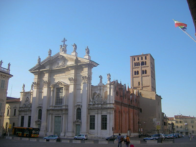 Mantova - Cathedral